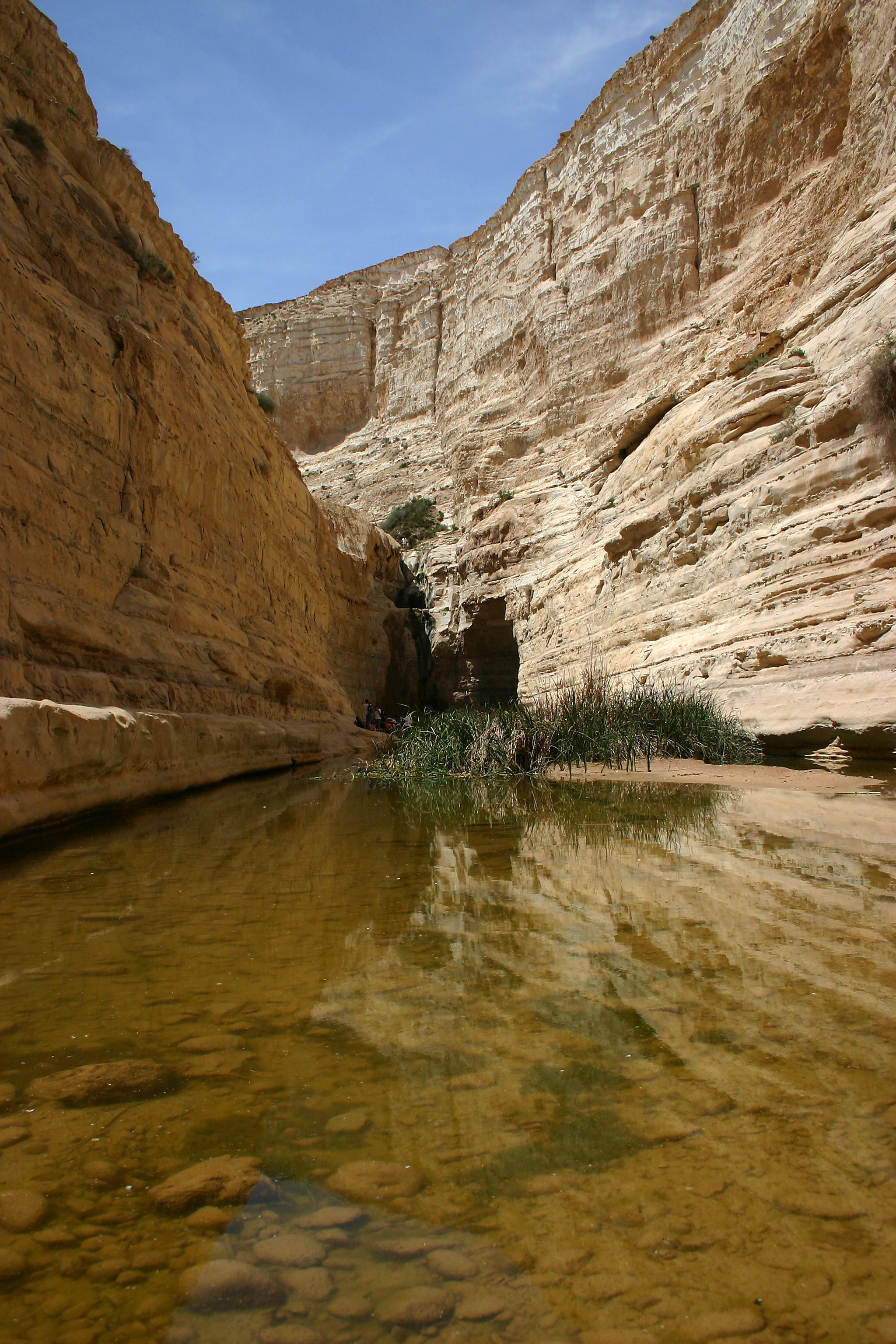 Ein Avdat